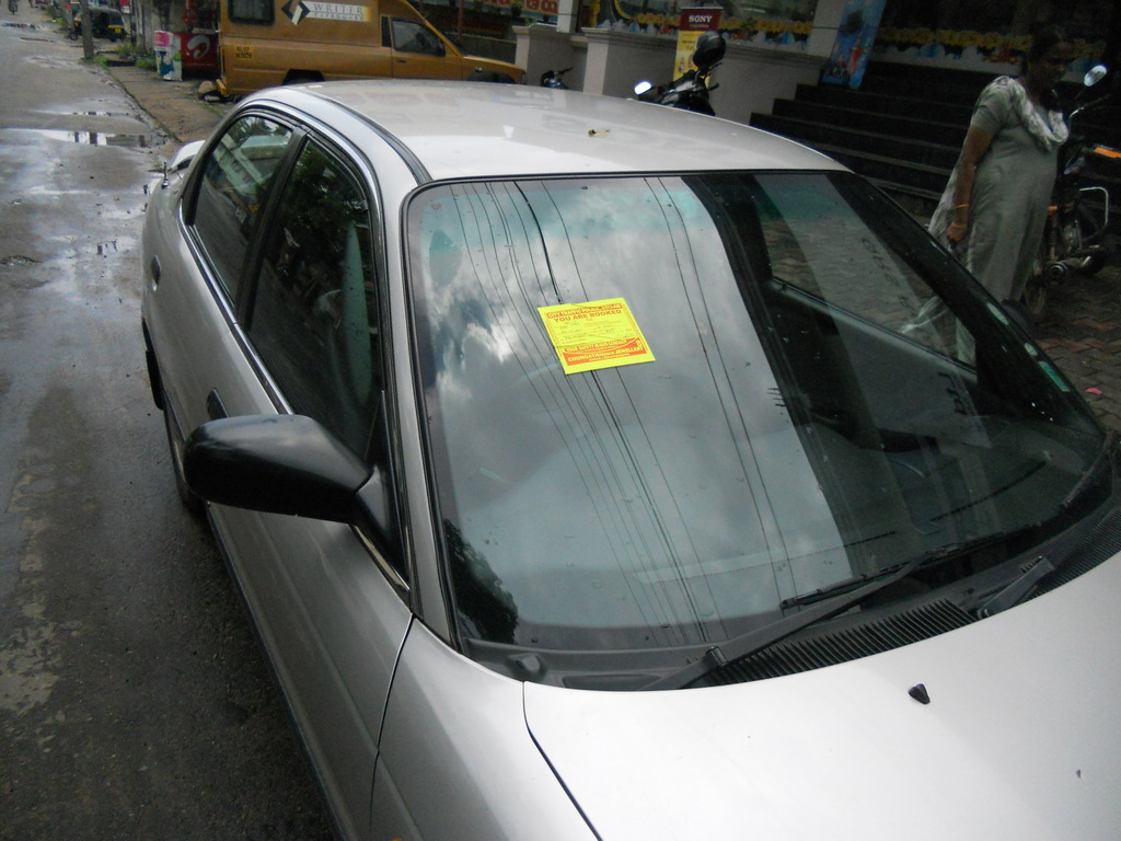 Sticker pasted by Kerala police